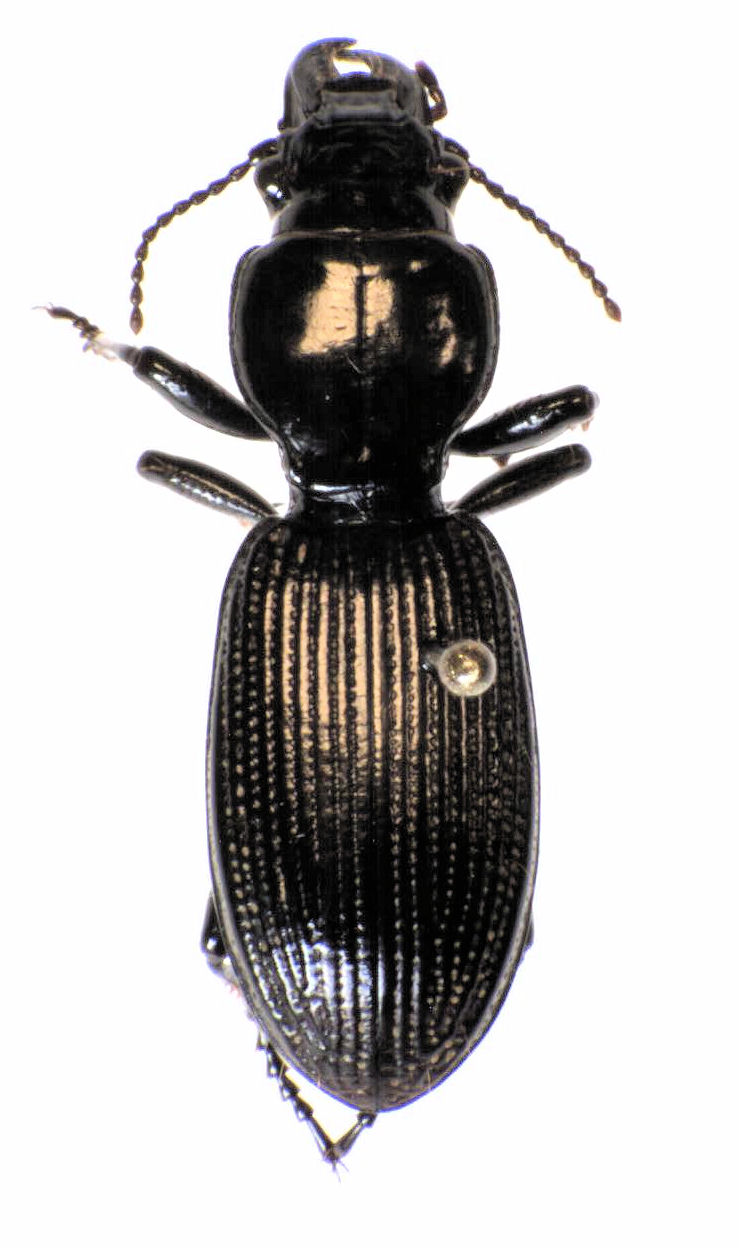 adult Mecodema manaia (topotype), length about 26 mm